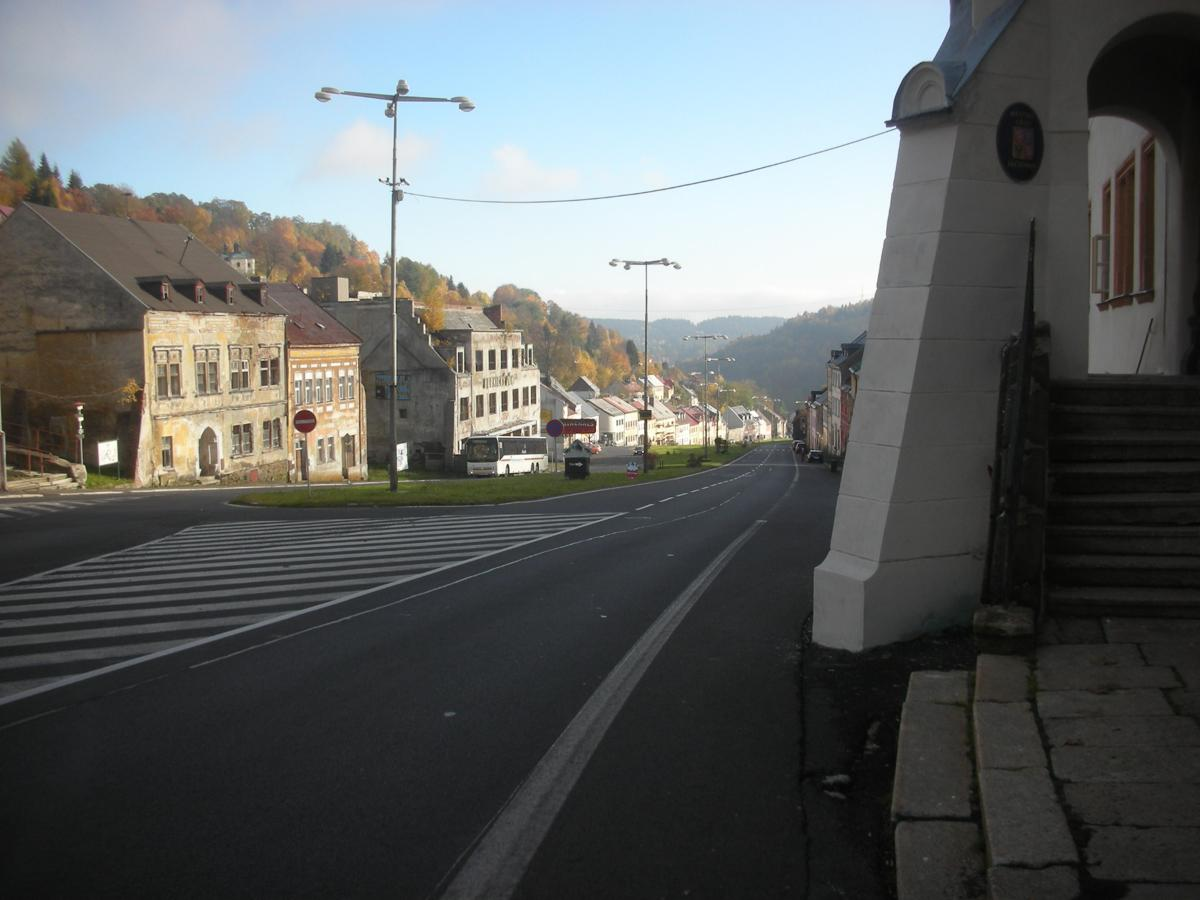 street Jachimov